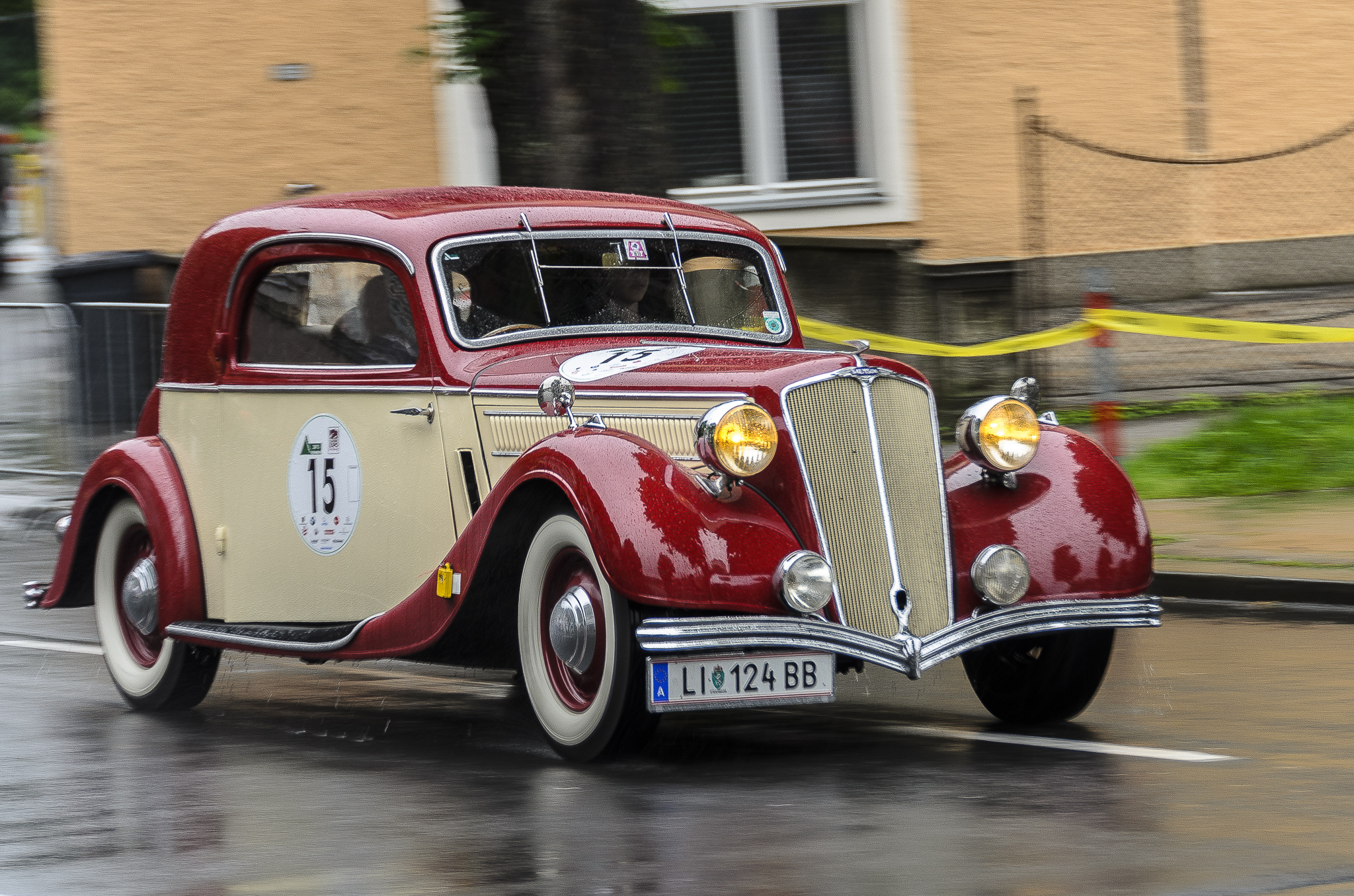 a Salmson at the Salzburg Stadt Grand Prix 2013